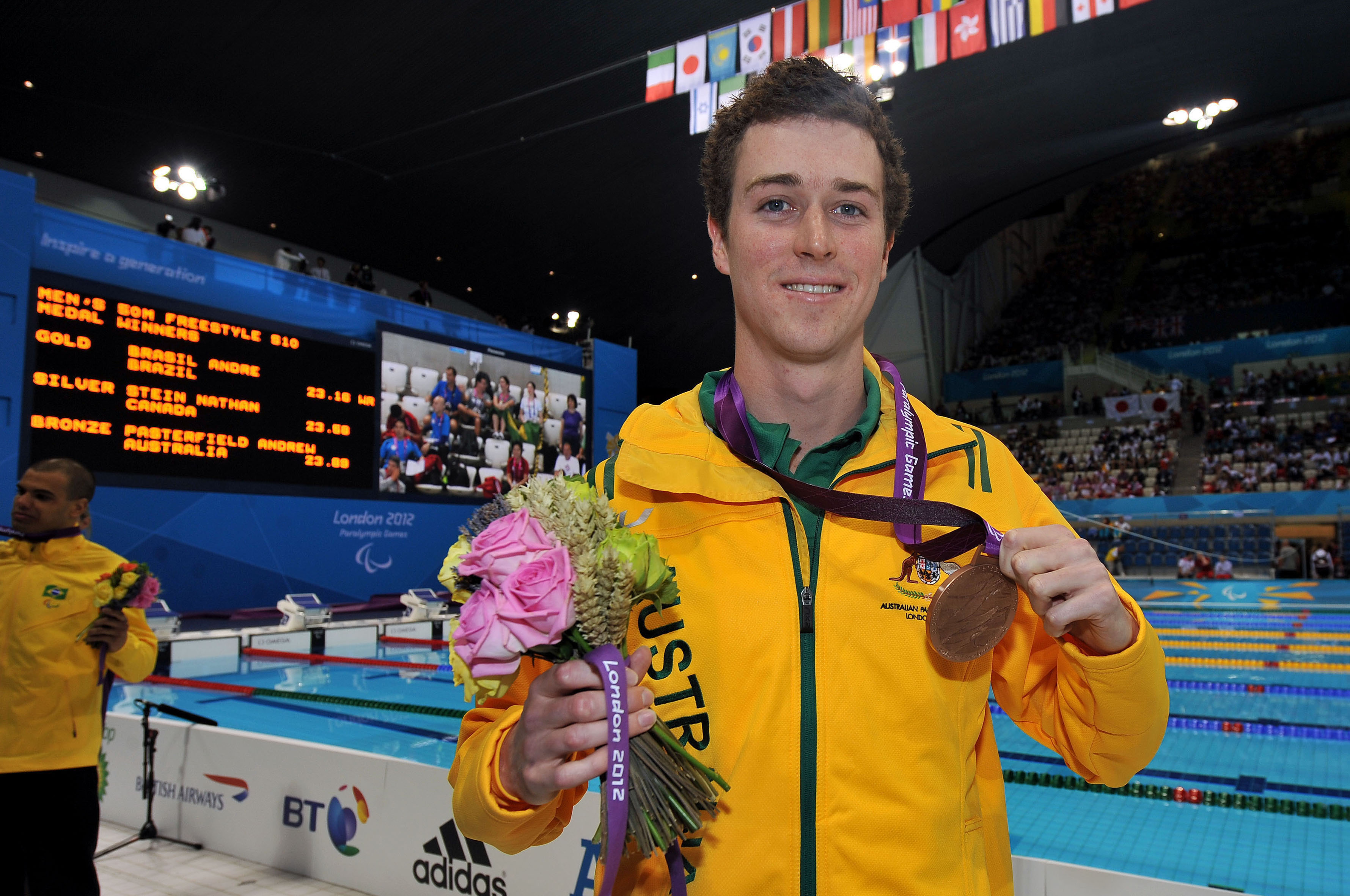 Photograph of Australian Paralympic team member Andrew Pasterfield at the 2012 Summer Paralympic Games in London